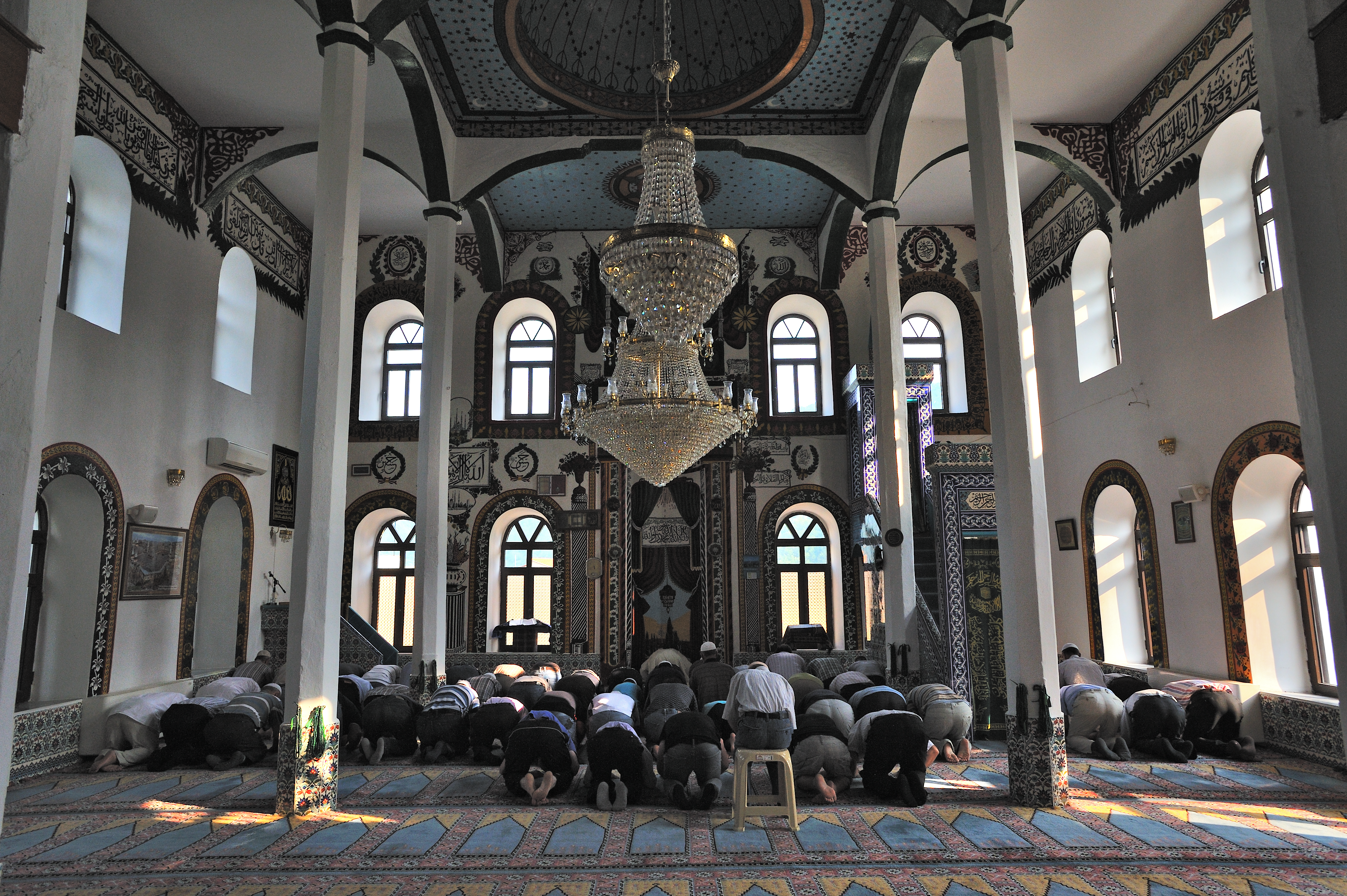 Prayer room of the green mosque in Echinos, Thrace, Greece.